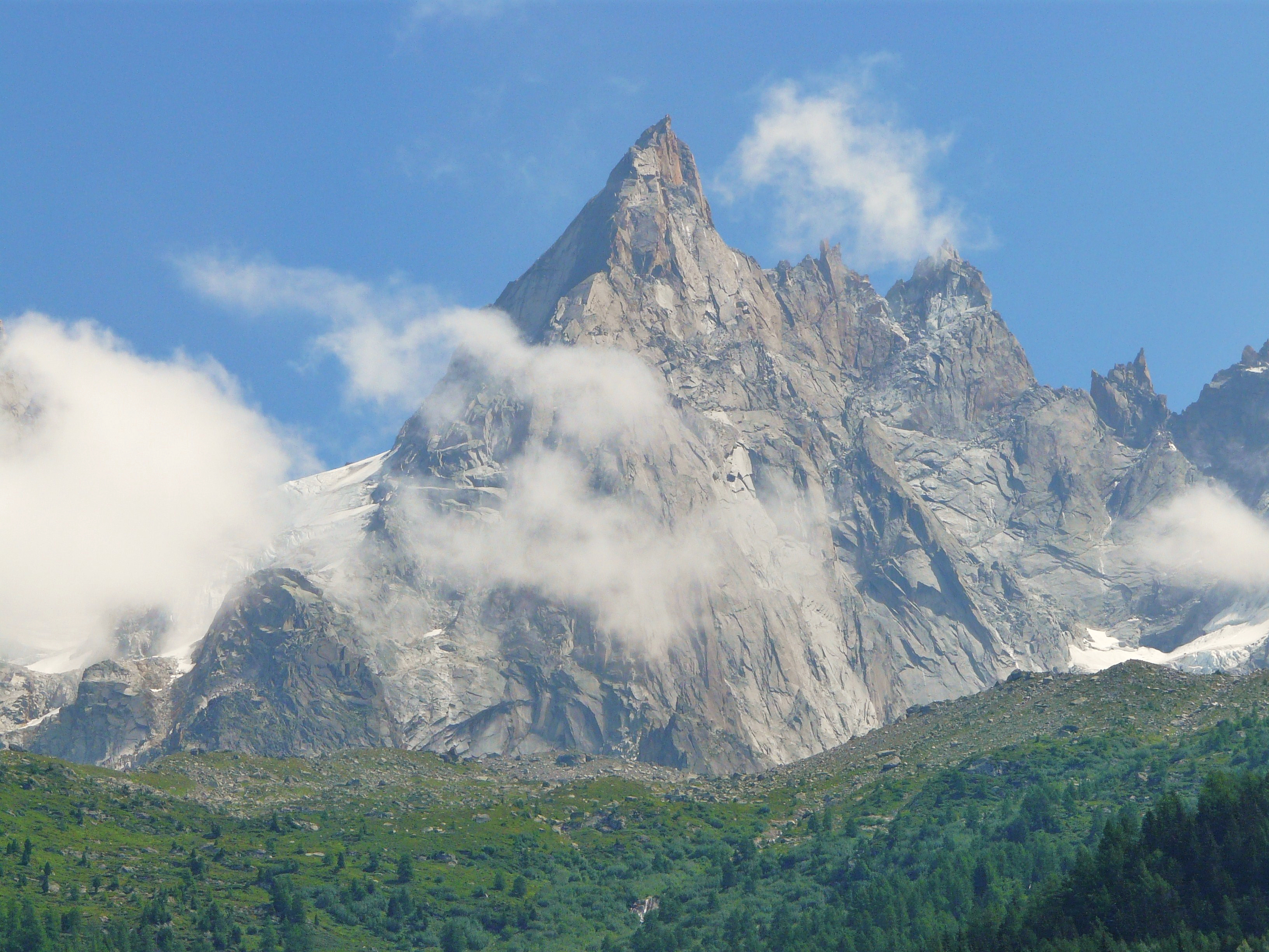 Aiguille de Blaitière as seen from Chamonix in 2009 July.